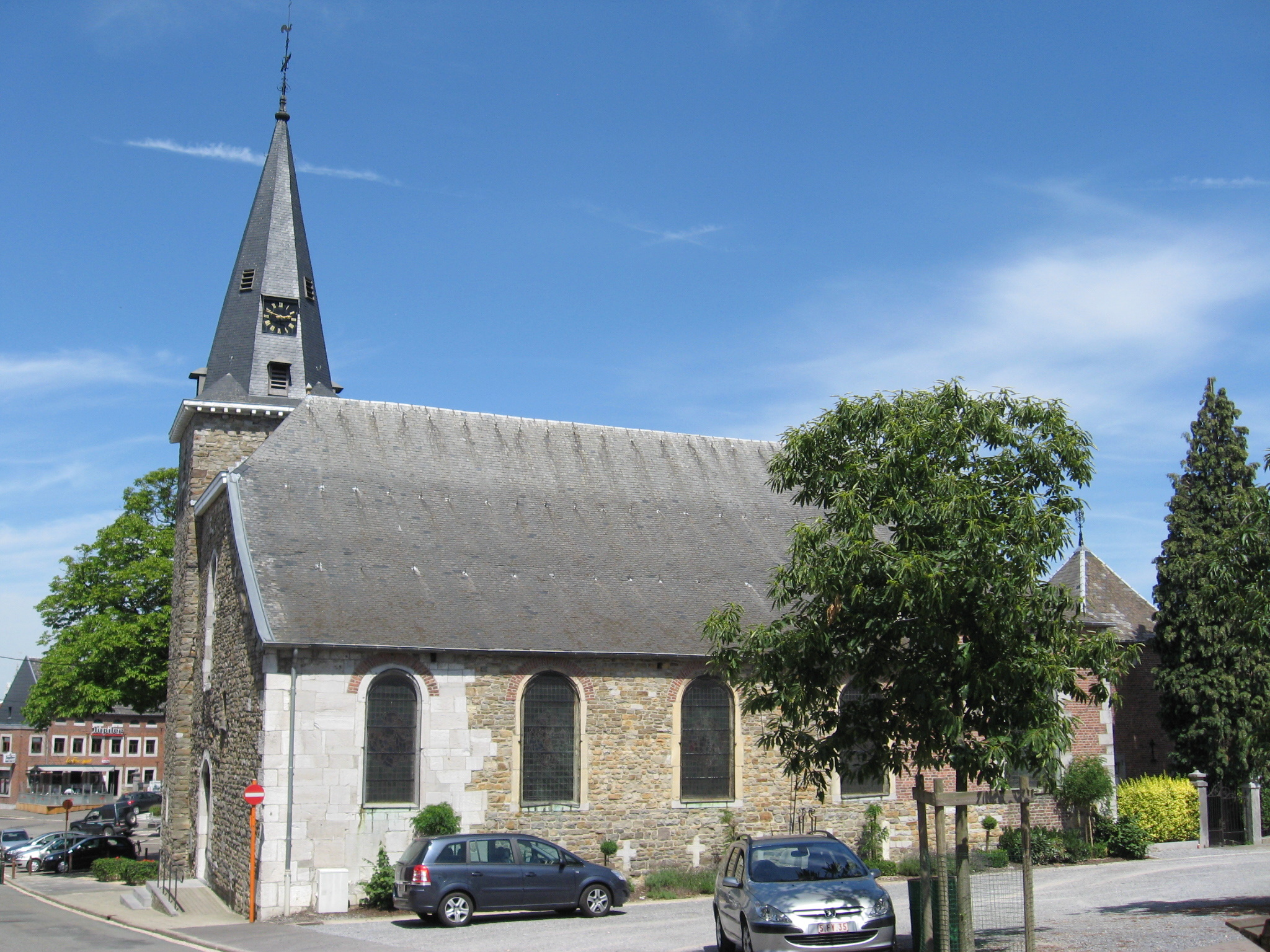 Church of Saint Anthony the Hermit in Thimister, Thimister-Clermont, Liège, Belgium